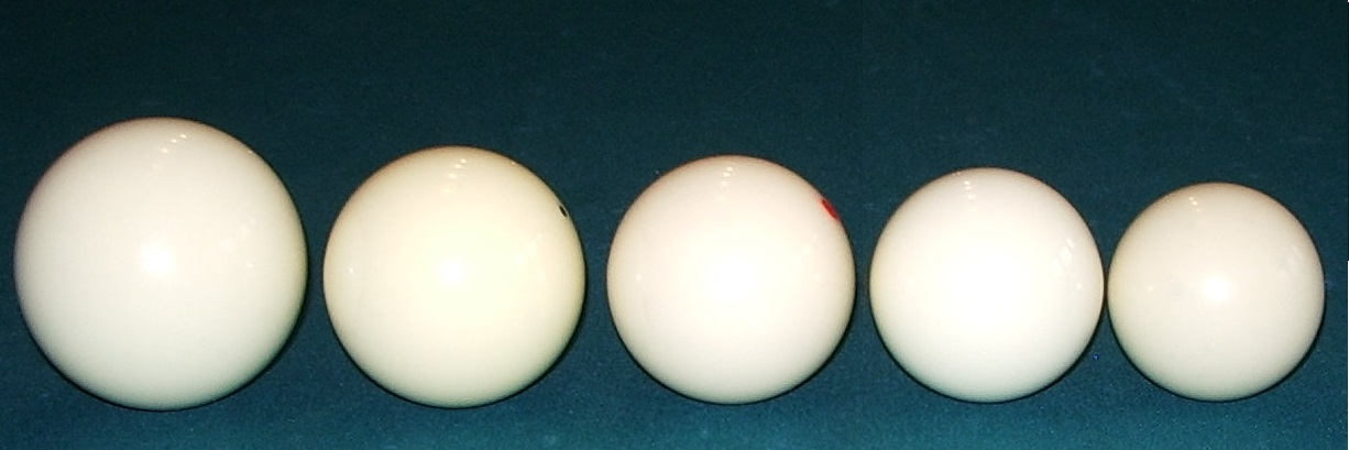 Cue balls from (left to right): Russian pool (68 mm [211⁄16 in]), carom (61.5 mm [27⁄16 in]), American-style pool (57 mm [21⁄4 in]), large Blackball pool (56 mm [23⁄16 in]), snooker (54 mm [21⁄8 in]), and small blackball pool. (51 mm [2 in]). Not shown: half-scale children's miniature pool (approximately 28 mm [11⁄8 in]). I (creator/poster SMcCandlish) measured all of these myself with precision calipers.